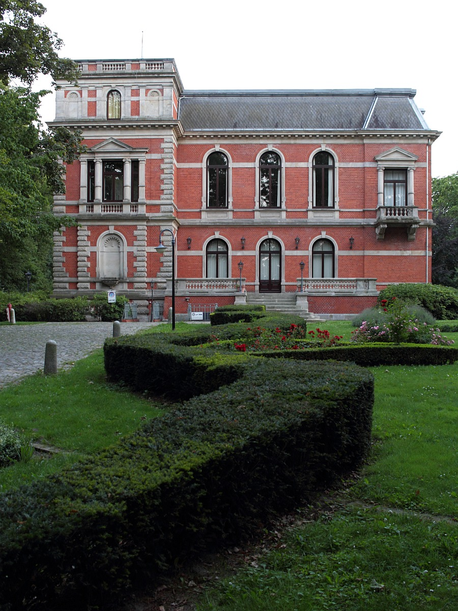 Manor house Schloss Etelsen (Neo-renaissance, built 1885–1887) near Verden (Germany) - Northern face.